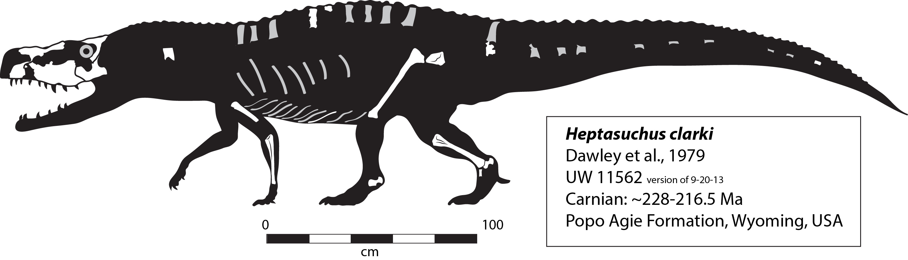 Skeletal Diagram of Heptasuchus